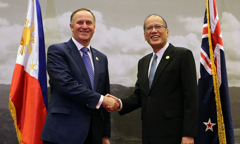 New Zealand Prime Minister John Key meets with Philippine President Benigno Aquino III in Manila at the sidelines of the APEC Economic Leaders' Meeting on 19 November 2015.